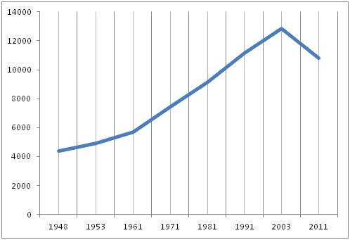 Population of Ulcinj (town).